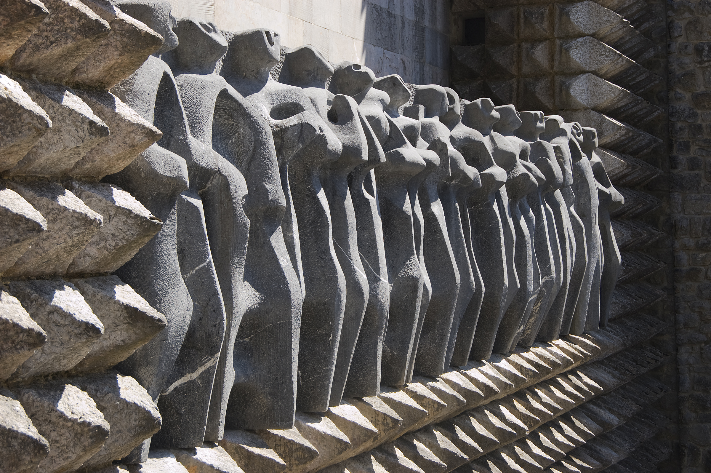 The sculpture Apostoluak (the Apostles) by Jorge Oteiza is made up of 14 figures, and decorates the entrance to the Sanctuary of Arantzazu.